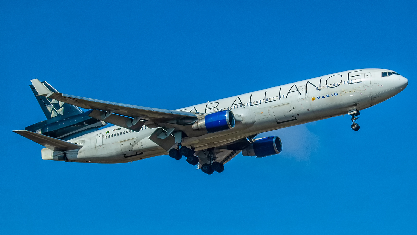 London Heathrow - March 19, 2006 Star Alliance